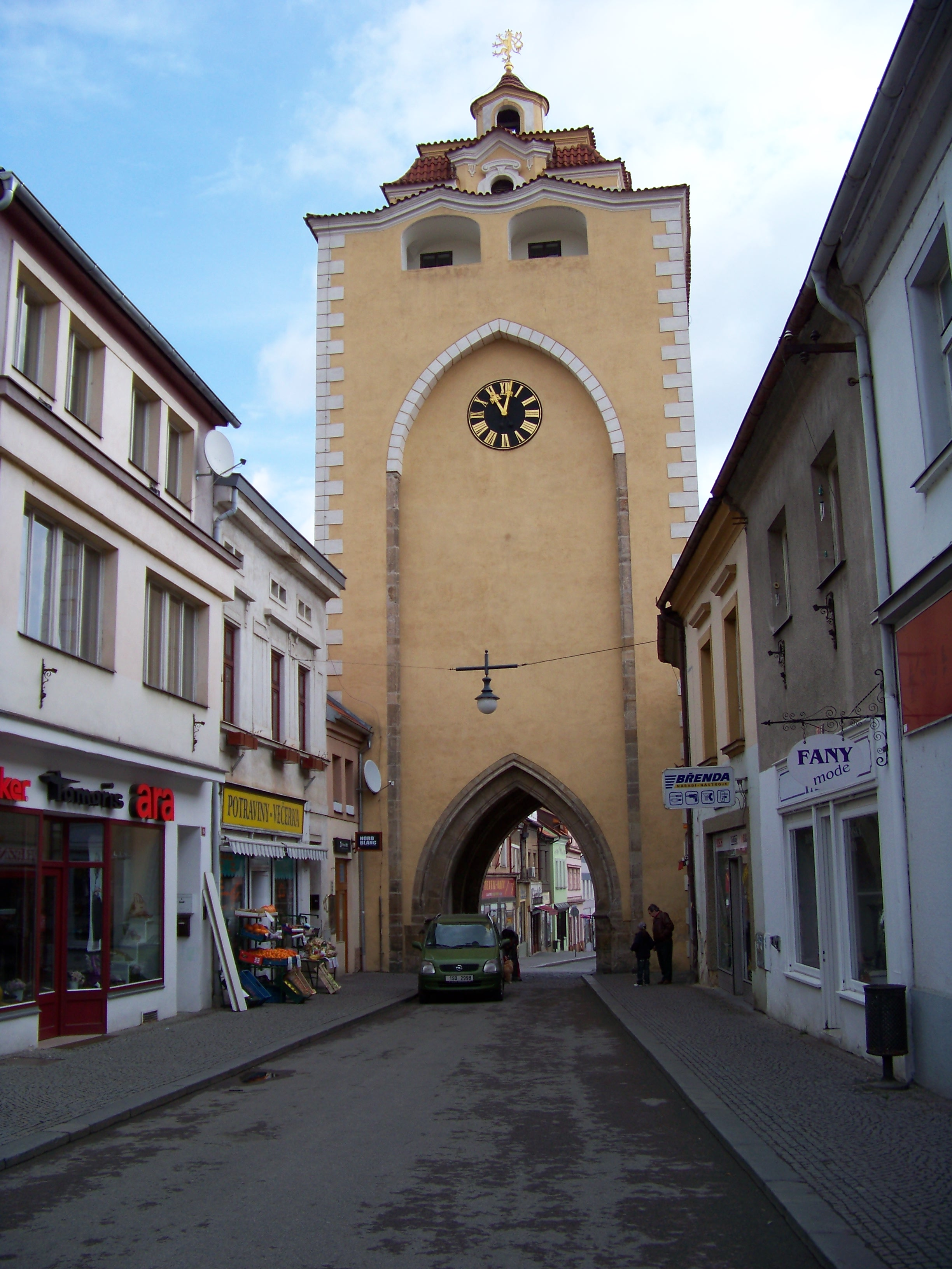 Beroun, Beroun District, Central Bohemian Region, the Czech Republic. V Plzeňské bráně Street, Pilsen Gate.